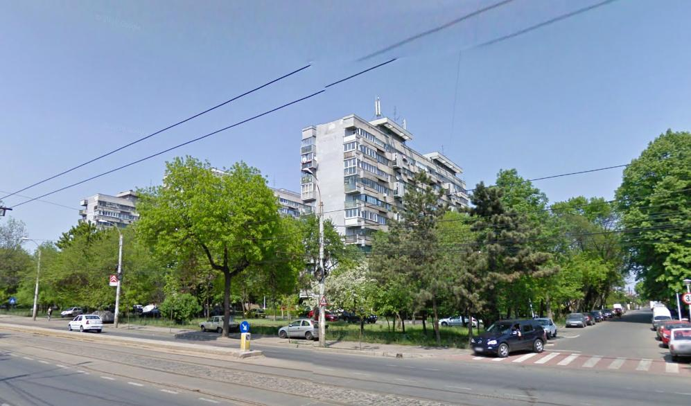 Bucureştii Noi is a district situated in north-west of Bucharest and of Sector 1.